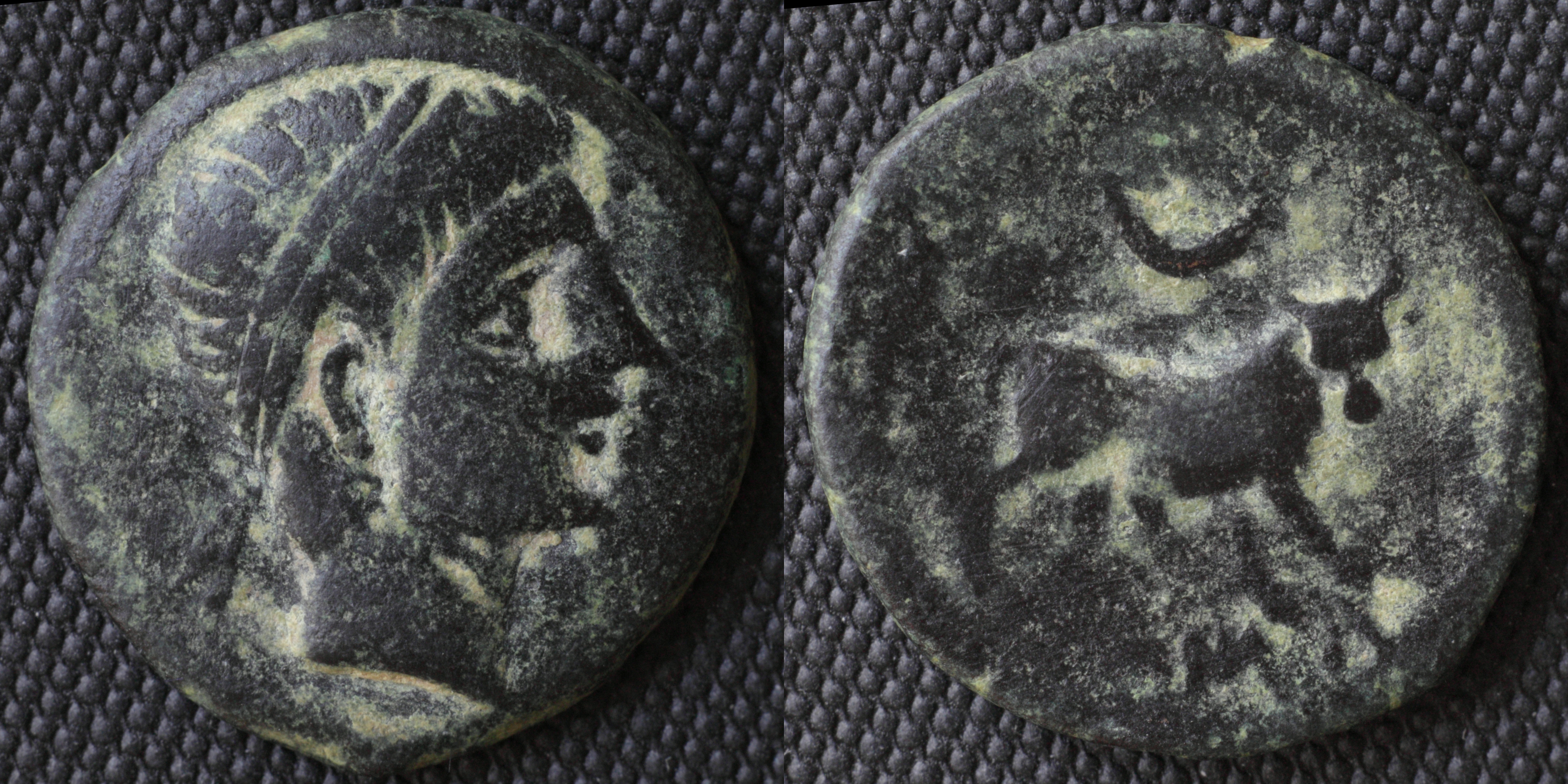 AE semis struck before 214 - 212 BC in Castulo; obverse: diademed head right; reverse: Bull right, crescent above, CASTILO retrograde in hispanian; references: CNH p. 331, 2-3; SNG BM Spain 1223-6.